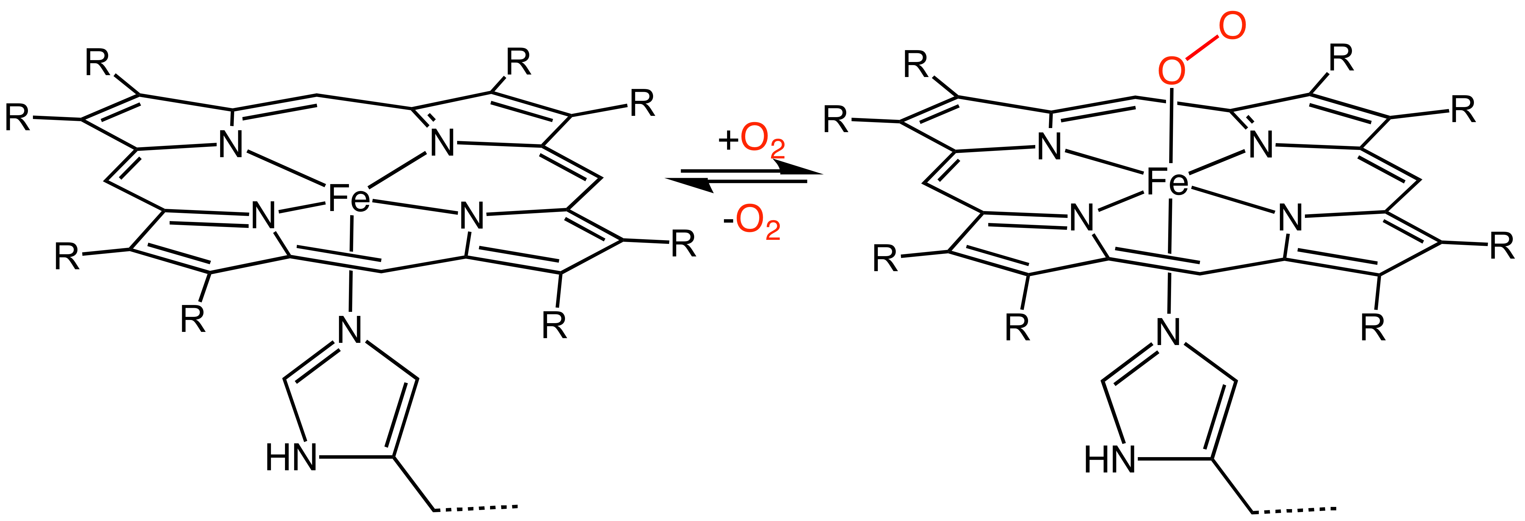 Oxygenation of heme protein